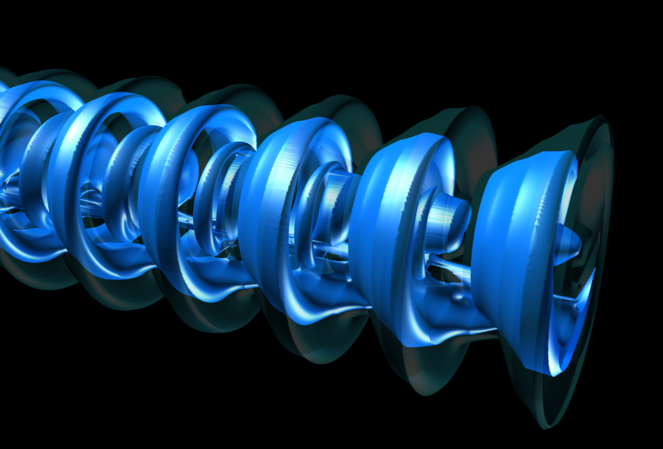 Exotic plasma wakefield electric field structure associated with the plasma electron dynamics during the beating between two intense lasers with orbital angular momentum. The spiralling structures are an indication that orbital angular momentum has been transferred from the intense lasers to the plasma wave.